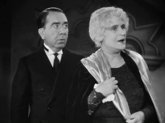 Low resolution screenshot of a scene with Baxter the butler (Herbert Mundin) and Henrietta Lowell (Henrietta Crosman) from the American film Charlie Chan's Secret (1936). The film is in the public domain due to the omission of a valid copyright notice on its original prints.